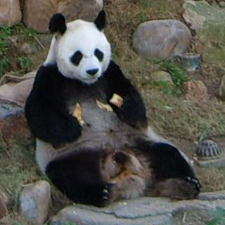 Giant Panda An'an in Ocean Park, Hong Kong 香港海洋公園大熊貓安安 Photo taken by myself (User:Sl) on November 2004.